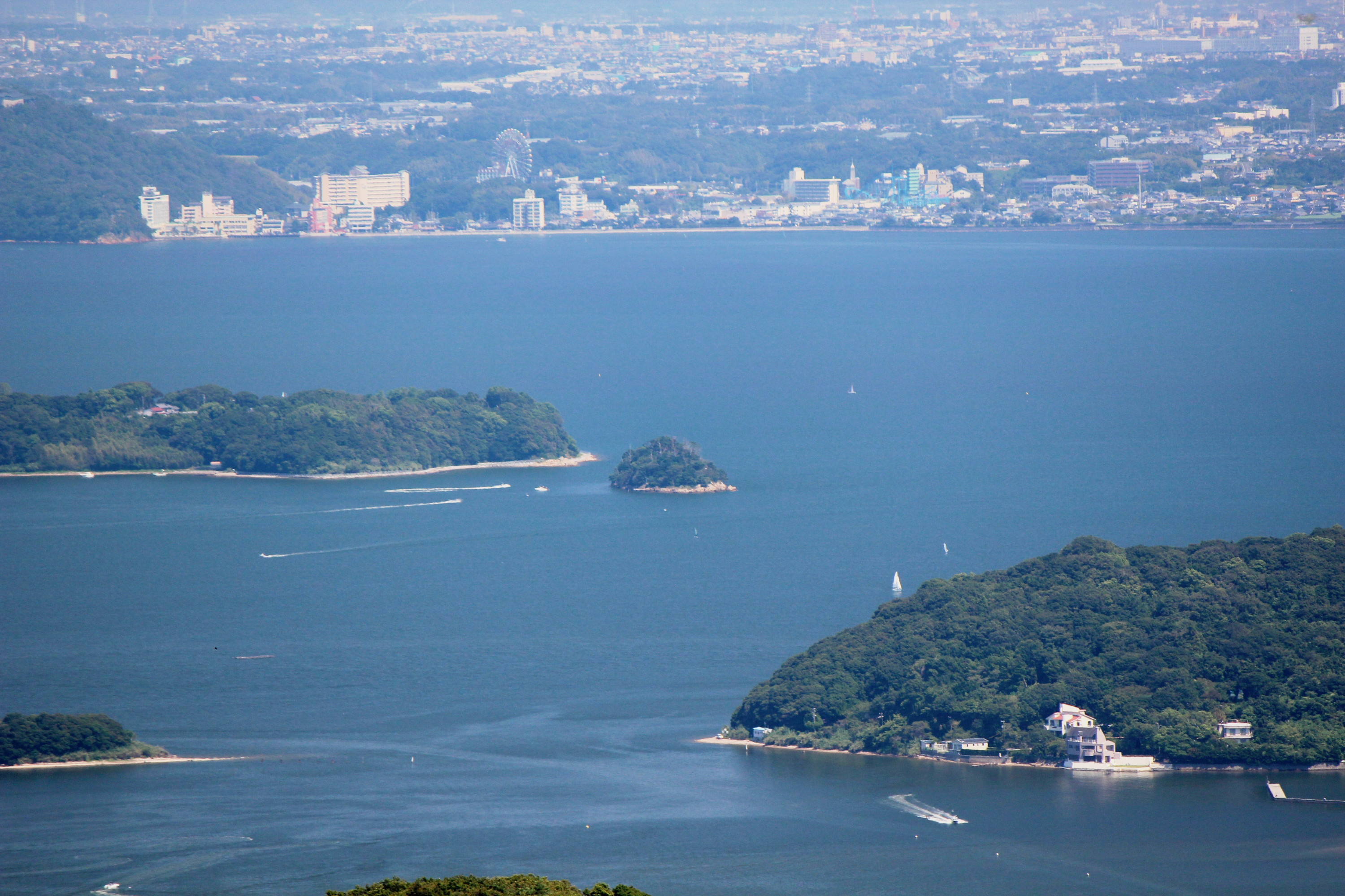 Tsubute Island inLake Hamana